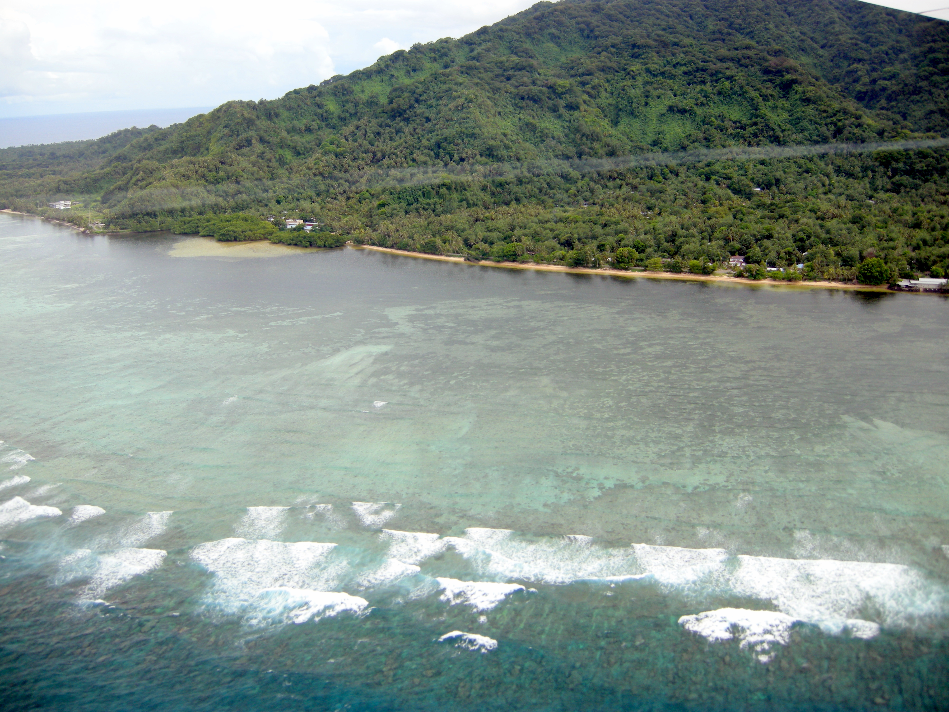 Continental Air Micronesia CO956 - Island hopping flight from Guam to Honolulu, stopping at Chuuk, Pohnpei, Kosrae, Kwajalein and Majuro